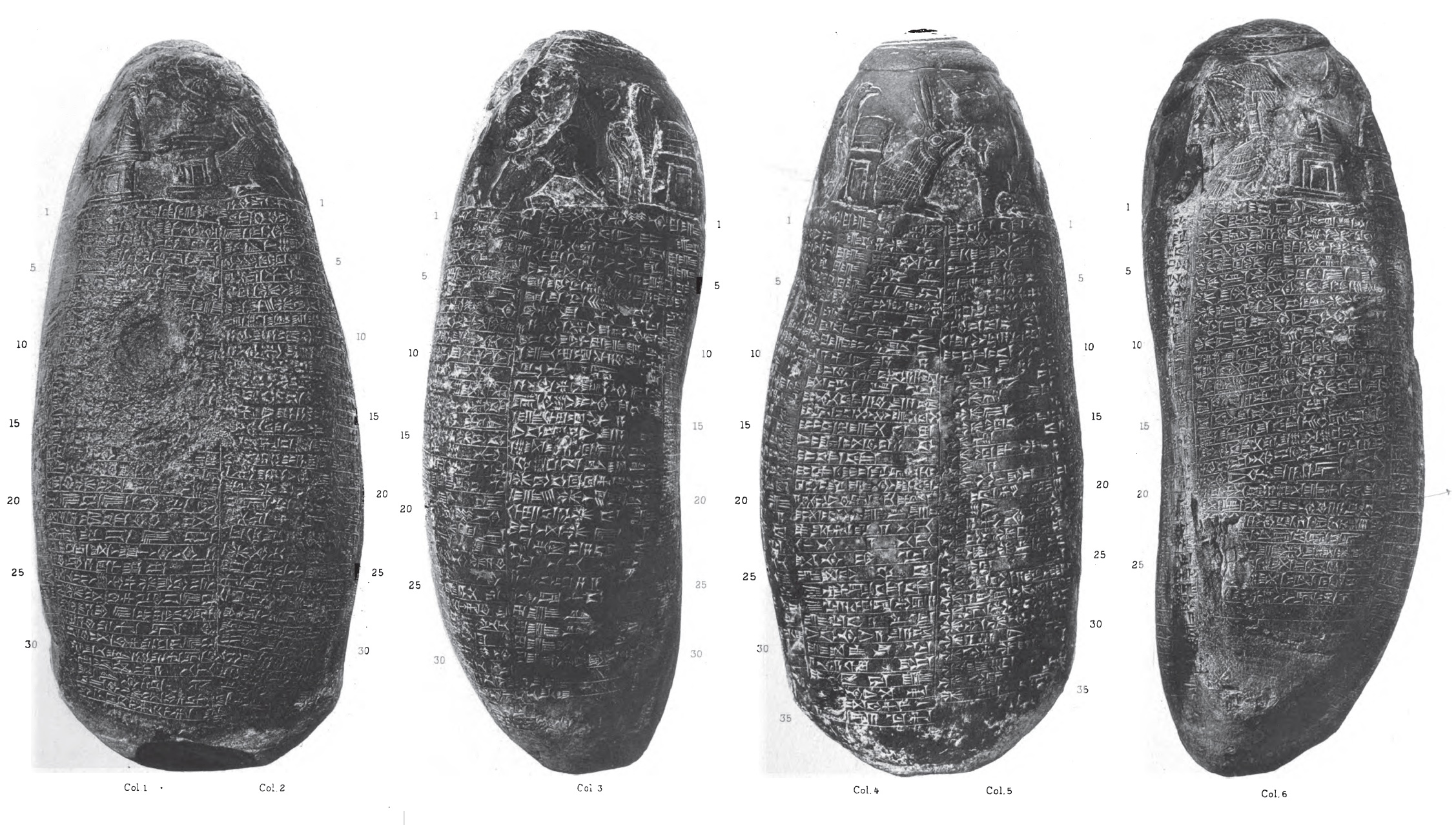 Land grant to Munnabittu kudurru, a Kassite era stele of the reign of Marduk-apla-iddina